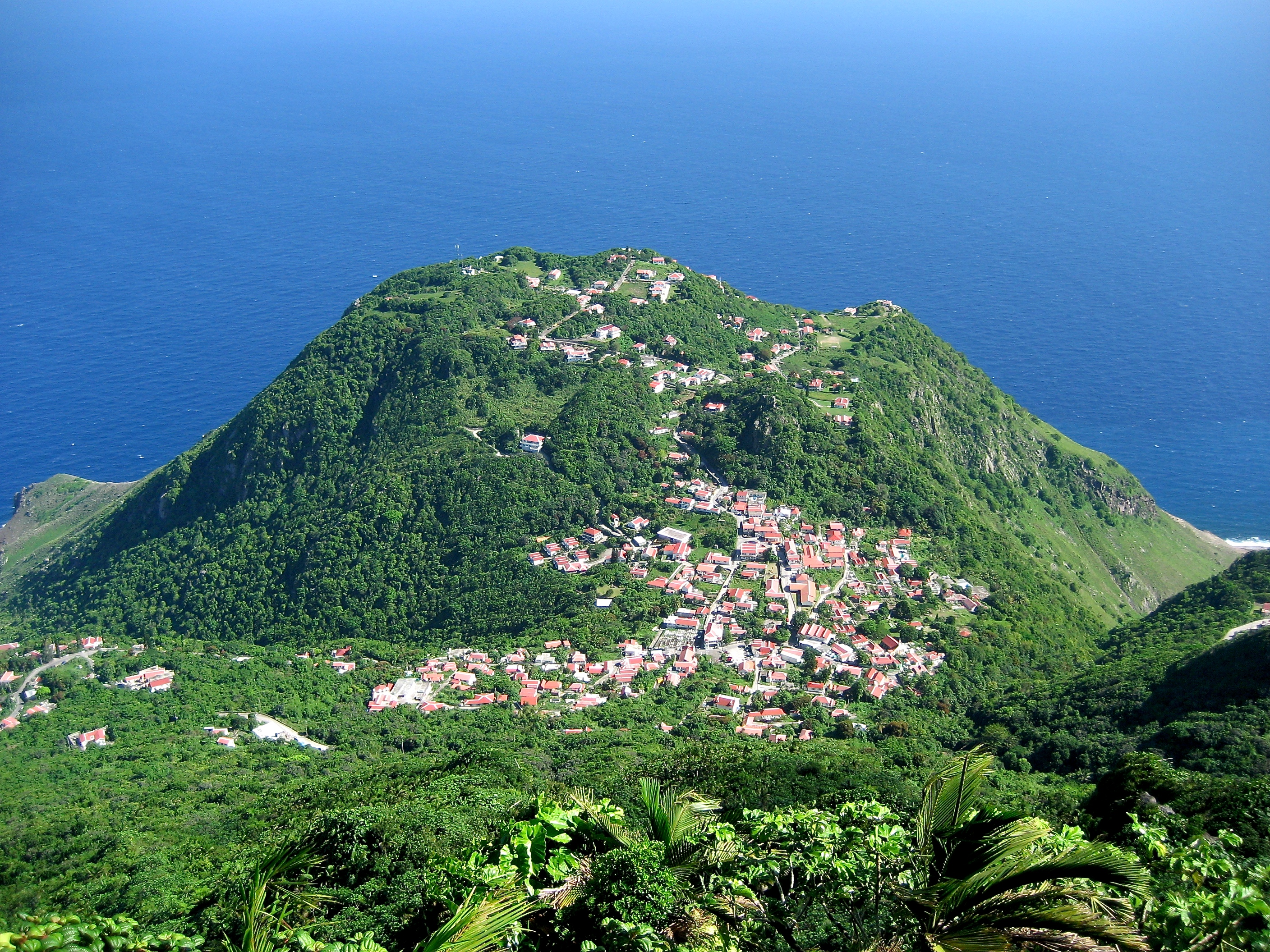 A view on the village of Windwardside, from the summit of Mt Scenery, on the island of Saba in the Netherlands Antilles, taken on a rare cloudless day.